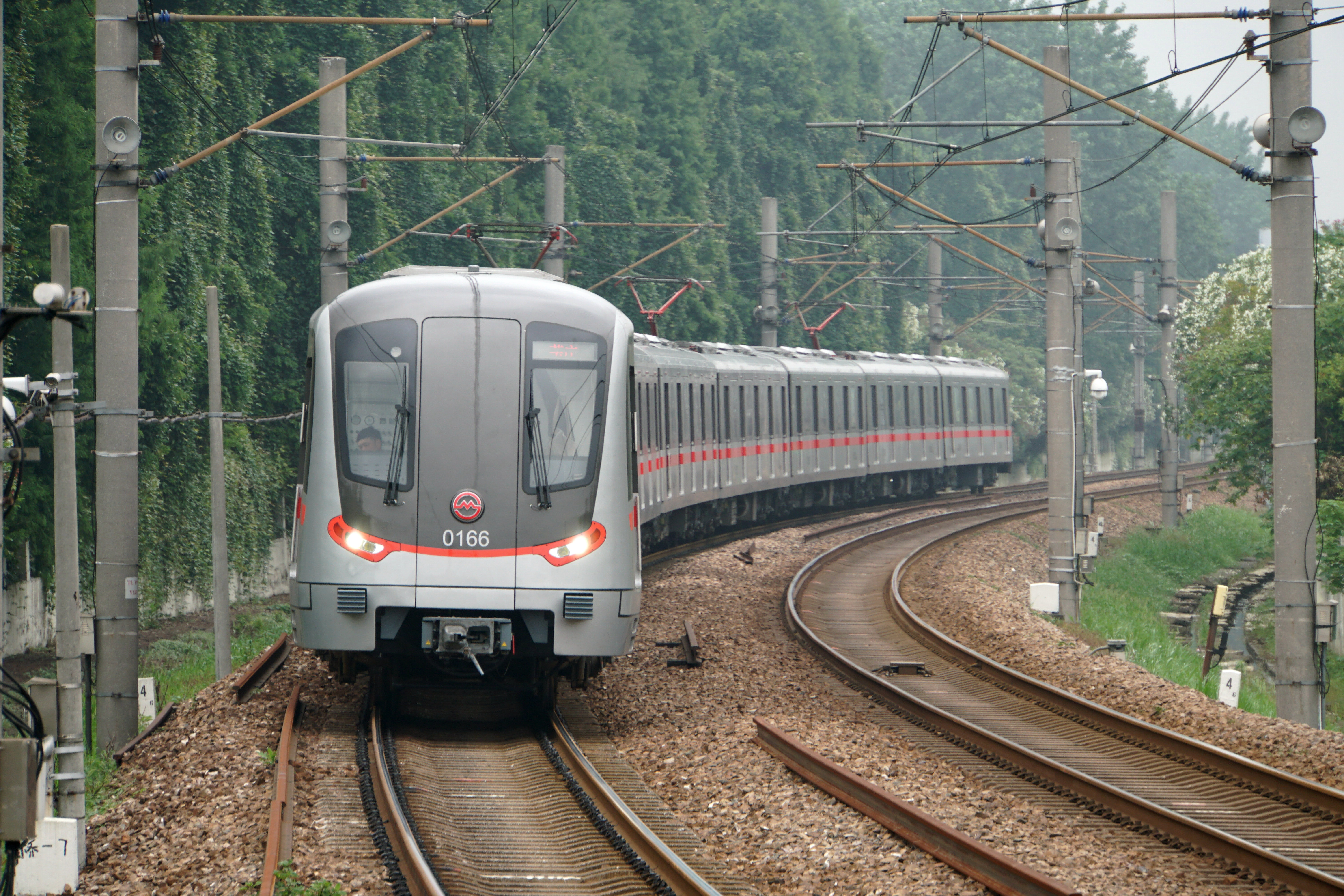 The train (Model: 01A06) of Shanghai Metro Line 1 is approaching Waihuanlu Station